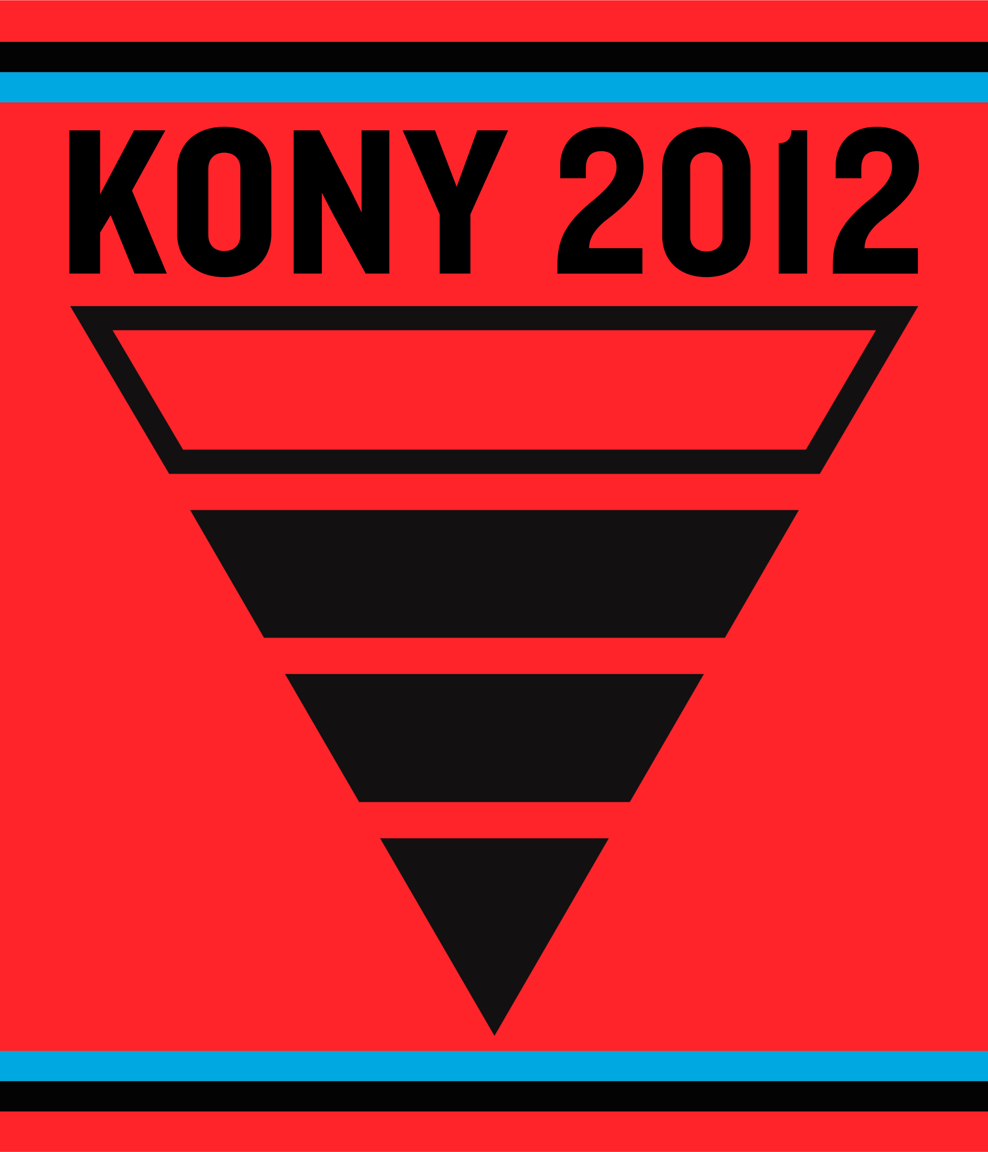 Kony 2012 Poster